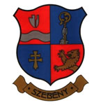 Coat of arms of Szebény, Hungary